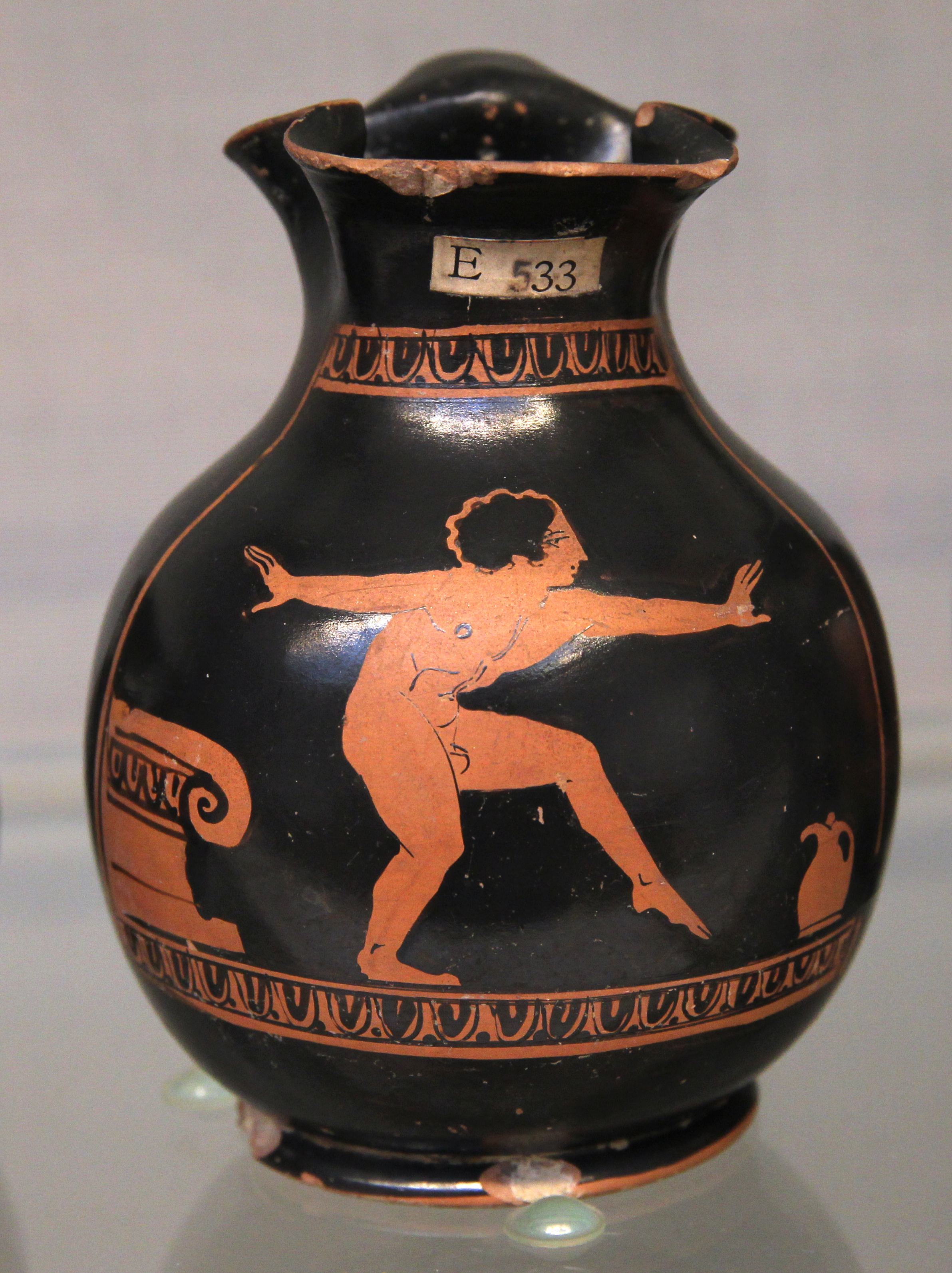 Oenochoe, dancing boy with chous and altar. Athens, 420-400 BC. British Museum, room 20a, showcase 51. GR 1842.7-28.927 ( E 533 ) Burgon collection.